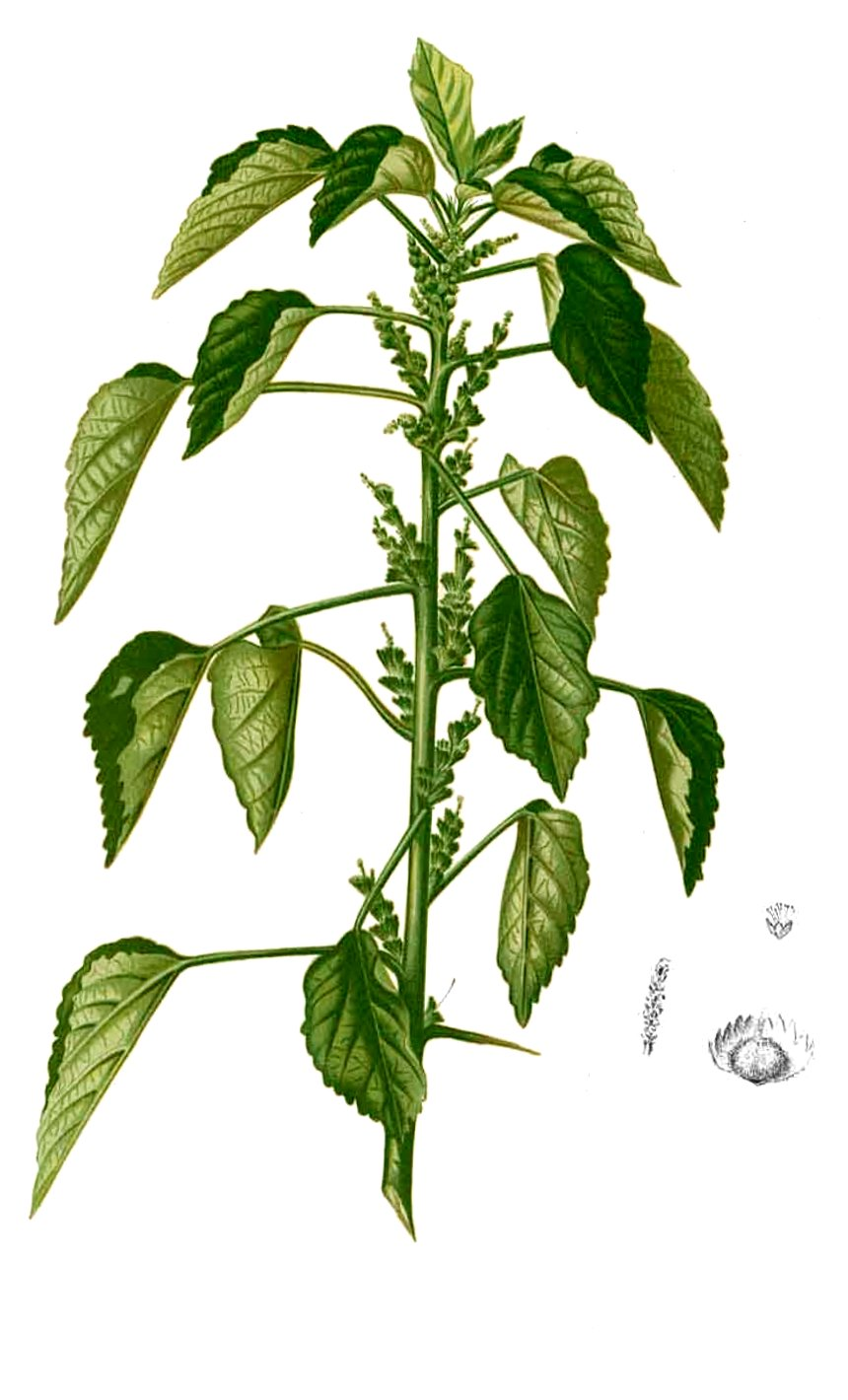 Plate from book